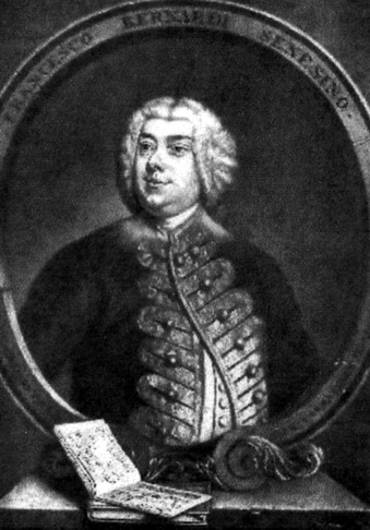 2D reproduction PD as such. Used at English Wikipedia in his article.